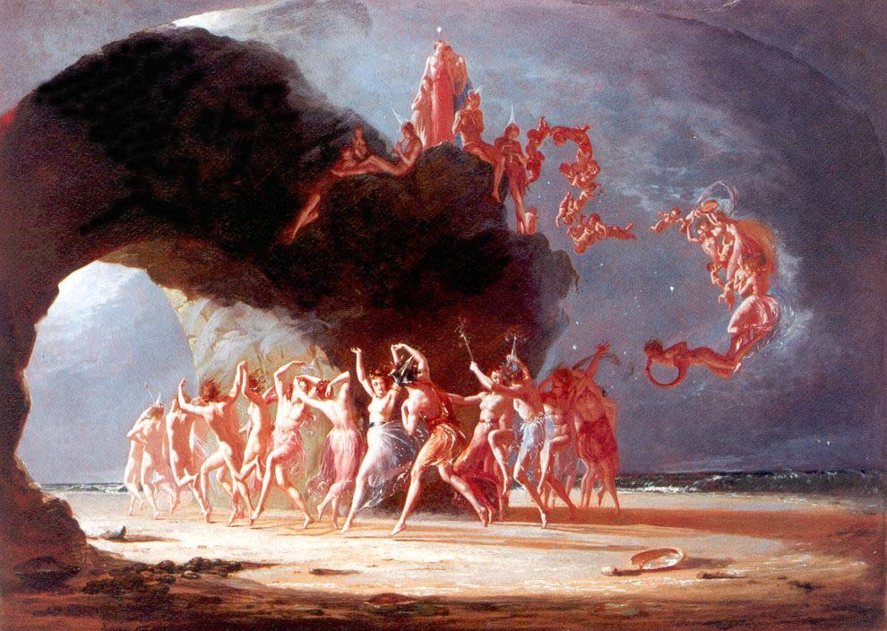 "Come unto These Yellow Sands". Oil on canvas, 21.75 × 30.5 inches.